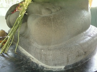 The Wurare inscription is written in Sanskrit, dated 1211 Saka (1289 CE). The inscriptions are made up of a 19 stanza poem, tells a story about a monk by the name of Arrya Bharad who was tasked with separating the island of Java into two areas, Jenggala and Panjalu, because two princes were warring over them. The ancient inscription is found at the base of Mahaksobhya Buddhist statue (locally called "Joko Dolog"), at Apsari Park, Surabaya. Left side picture.